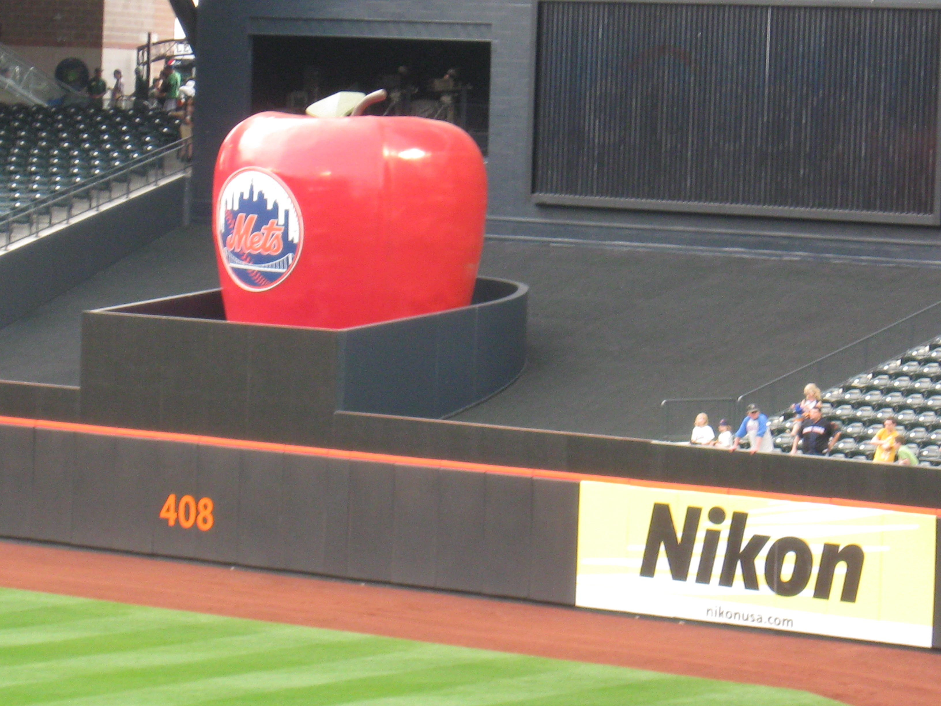 The Home Run Apple at Citi Field, the home of the New York Mets.